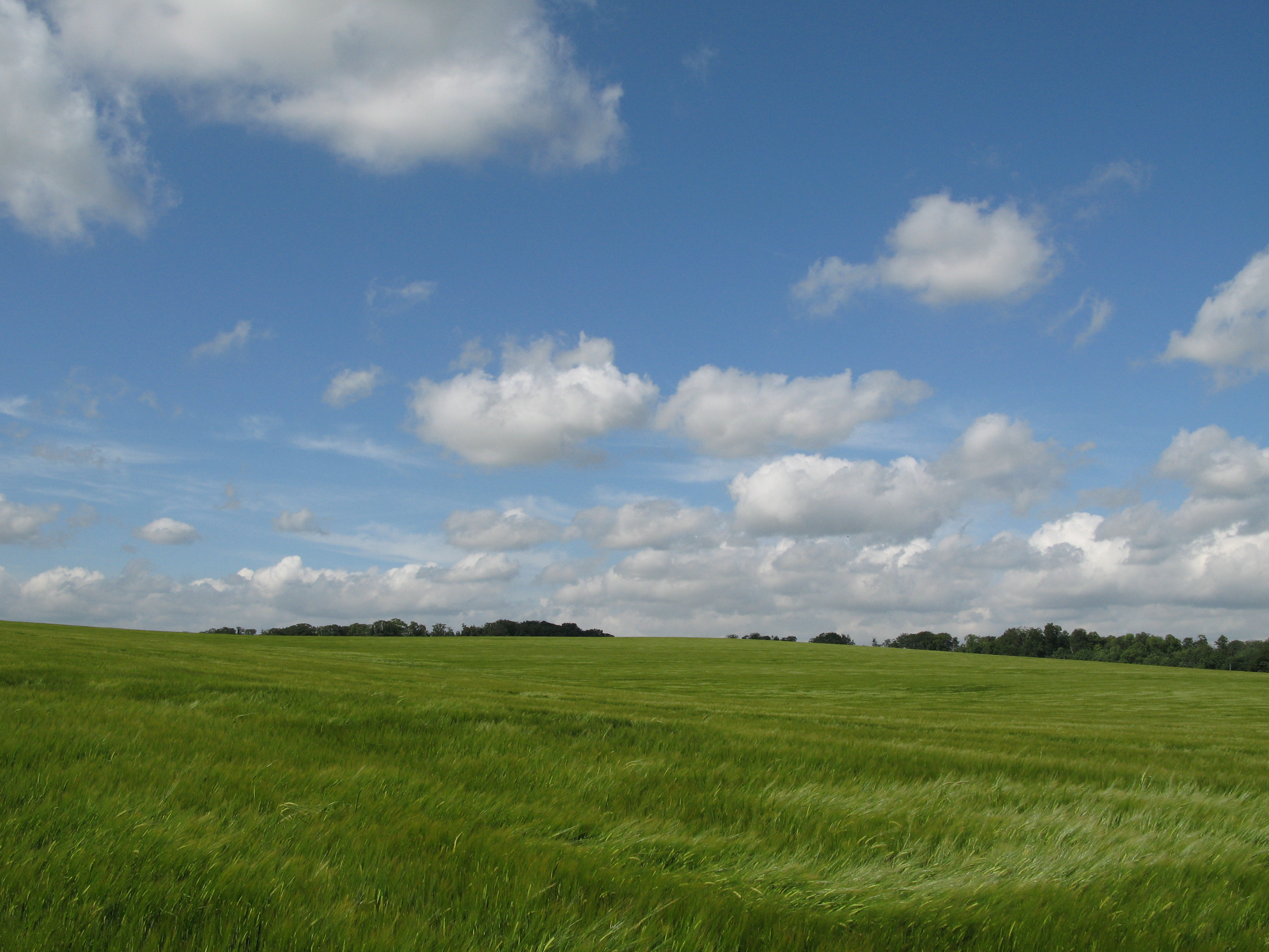 Barley fields in Cambridge countryside